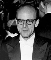 Max Ferdinand Perutz (1914 – 2002) with his wife Gisela at the 1962 Nobel ball